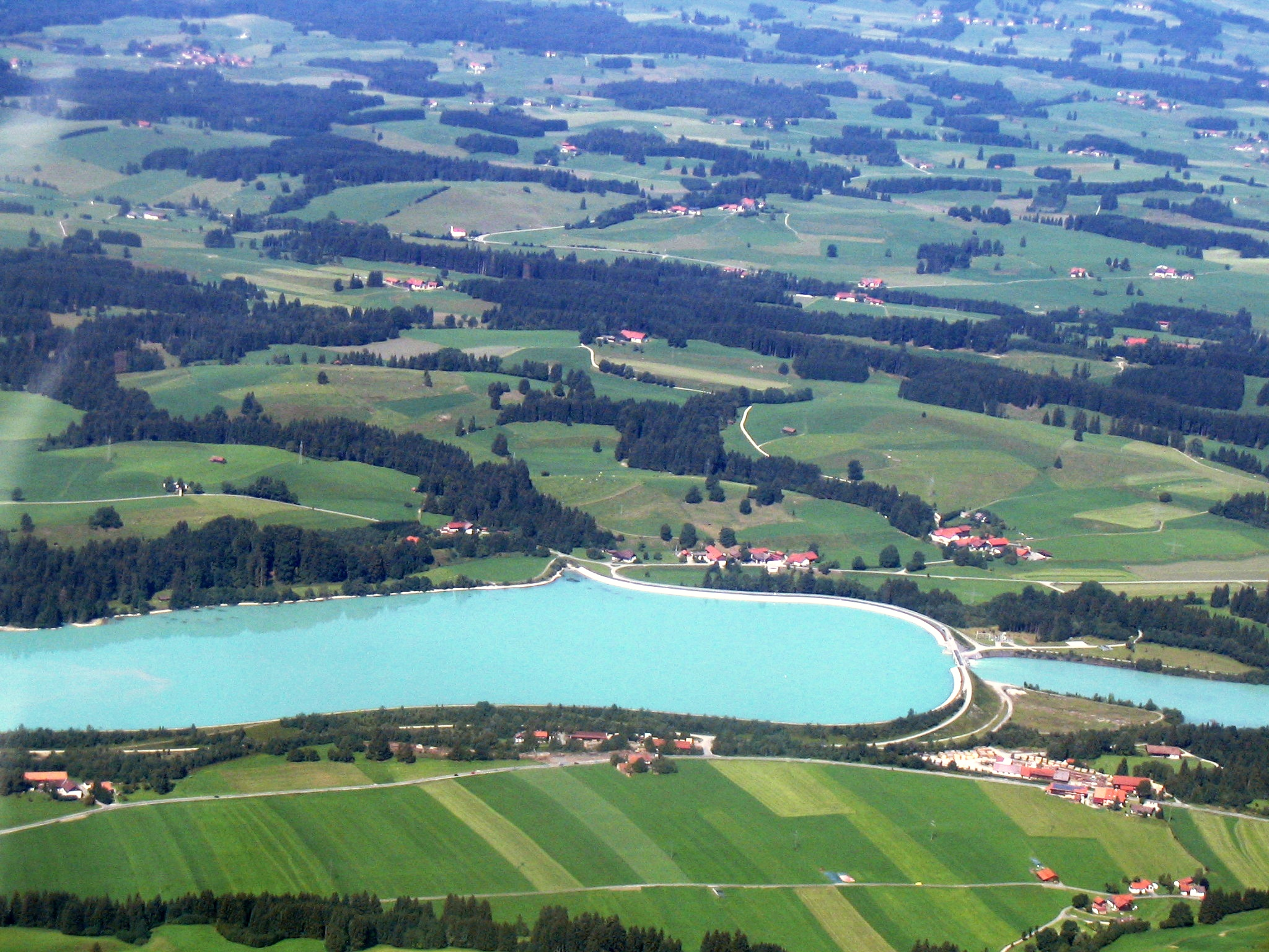 Dam of hydroelectric power station of the river Lech at Prem